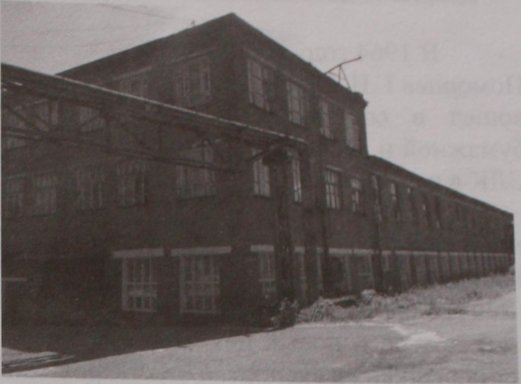 Сарапульский лесозавод, тарный цех